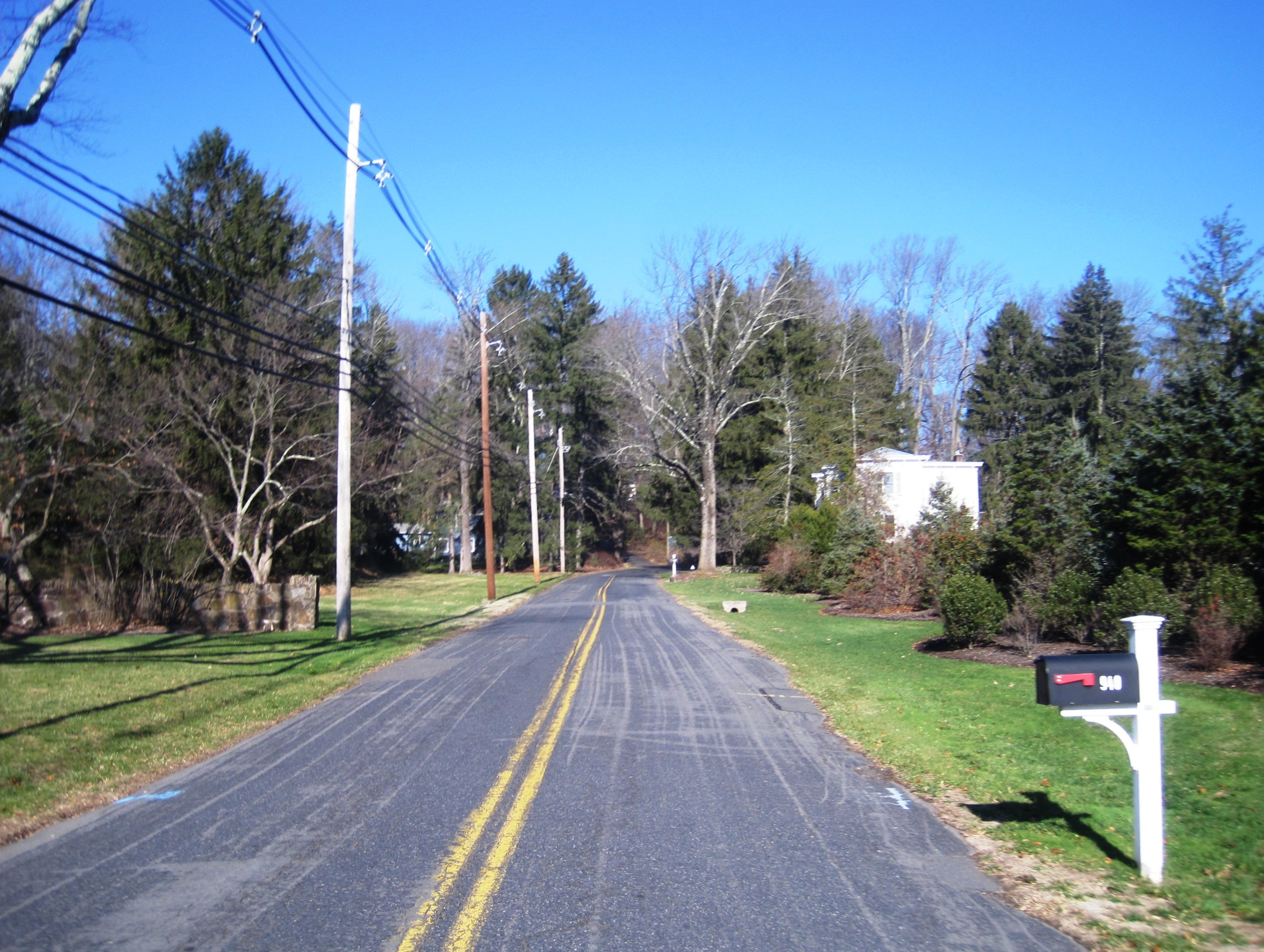 Photo of Cedar Grove, New Jersey, an unincorporated community within Princeton, Mercer County. Photo taken along northbound Great Road West north of Stuart Lane.